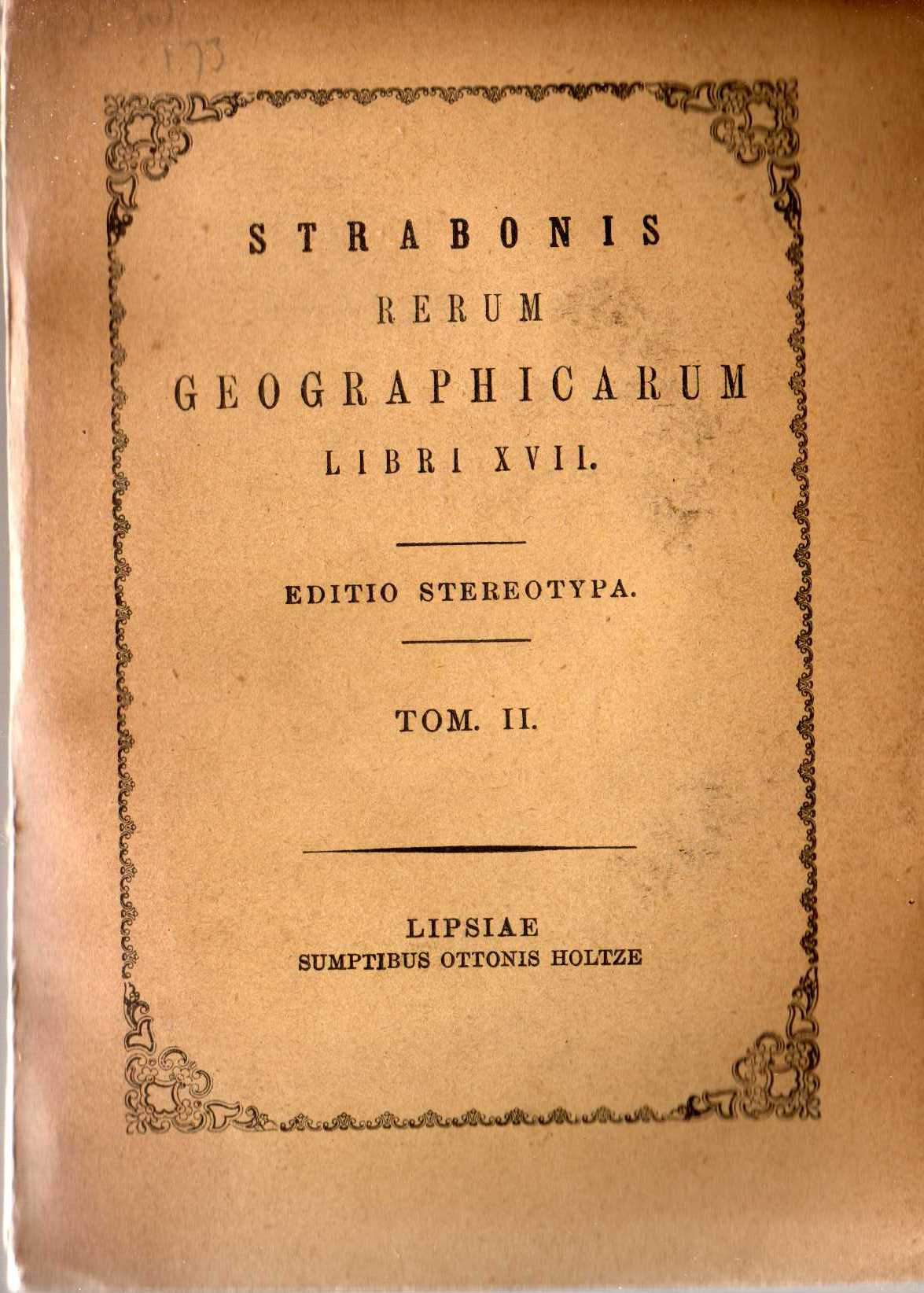 Book cover, Strabo publ. Tauchnitz, reprint